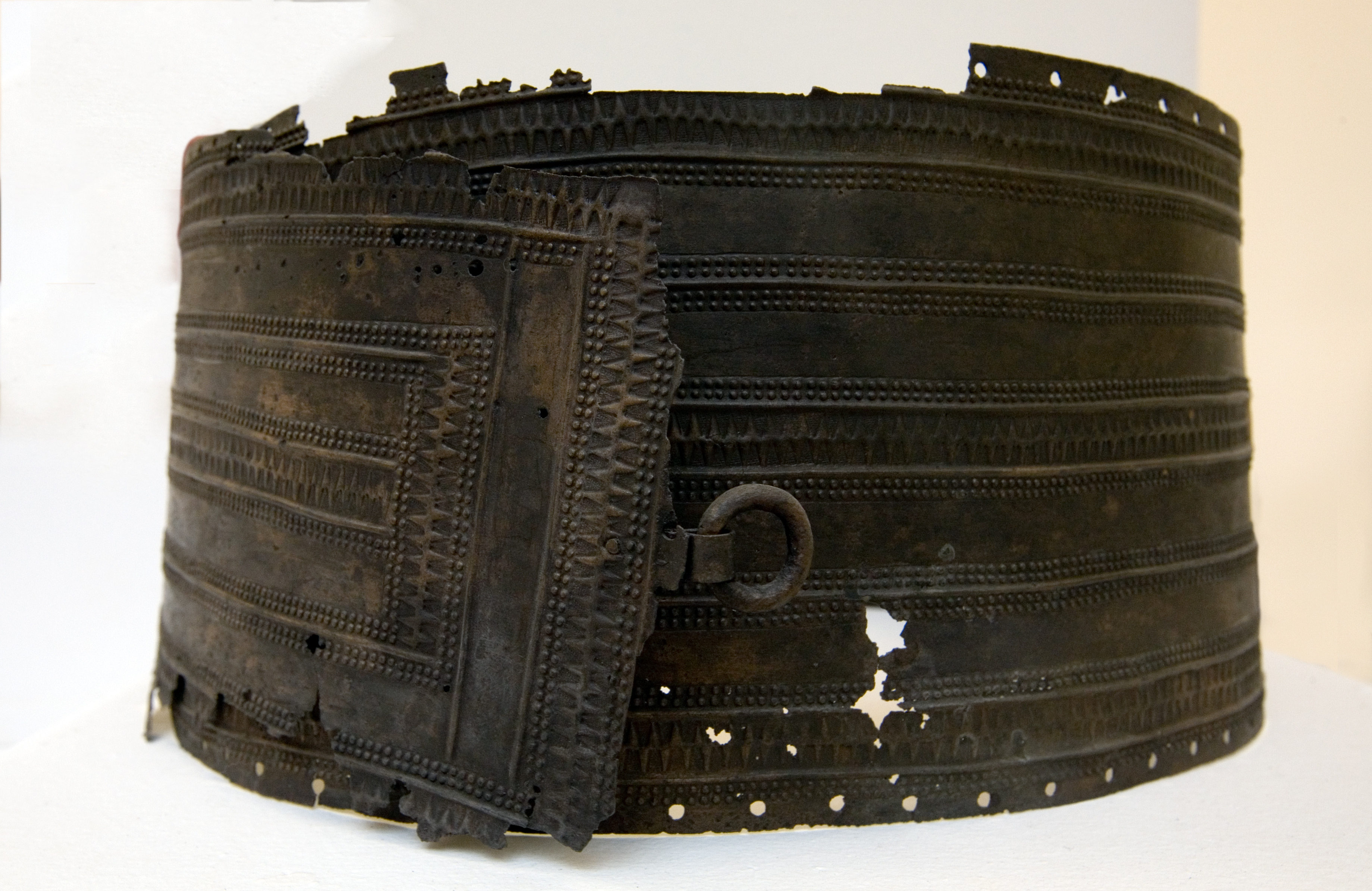 Belt of Urartian Warrior